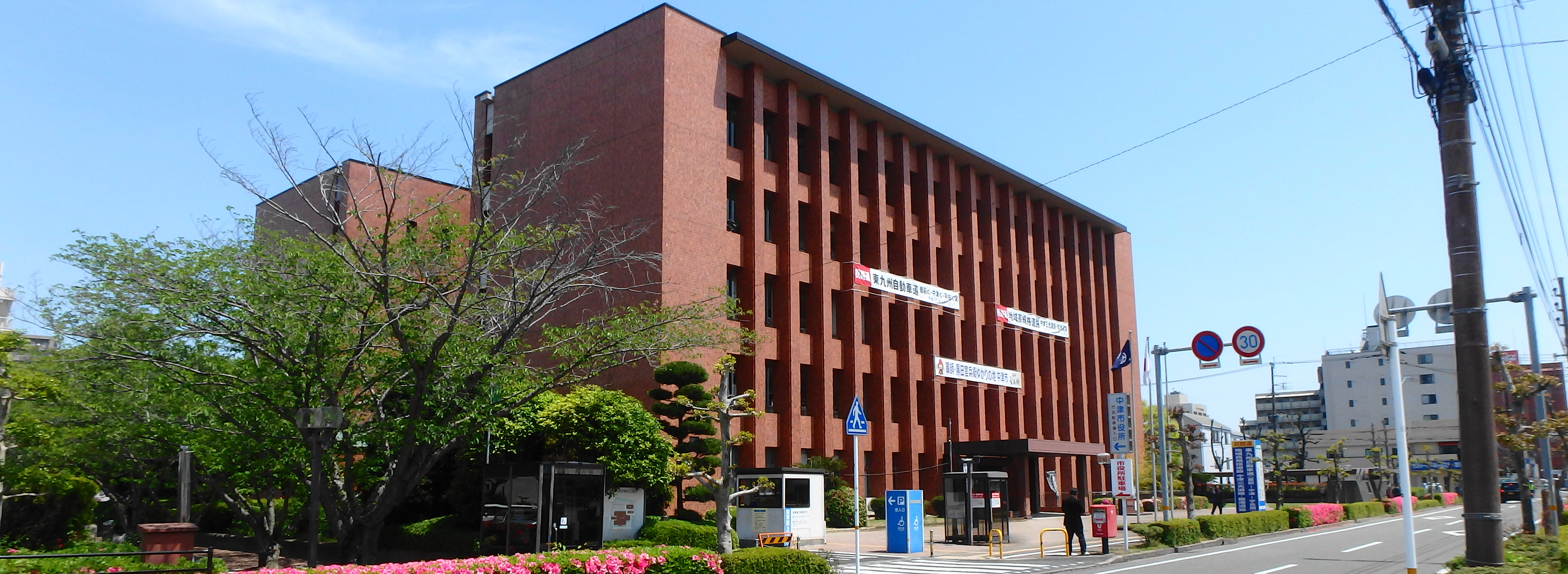 Nakatsu city hall,Oita prefecture,Japan